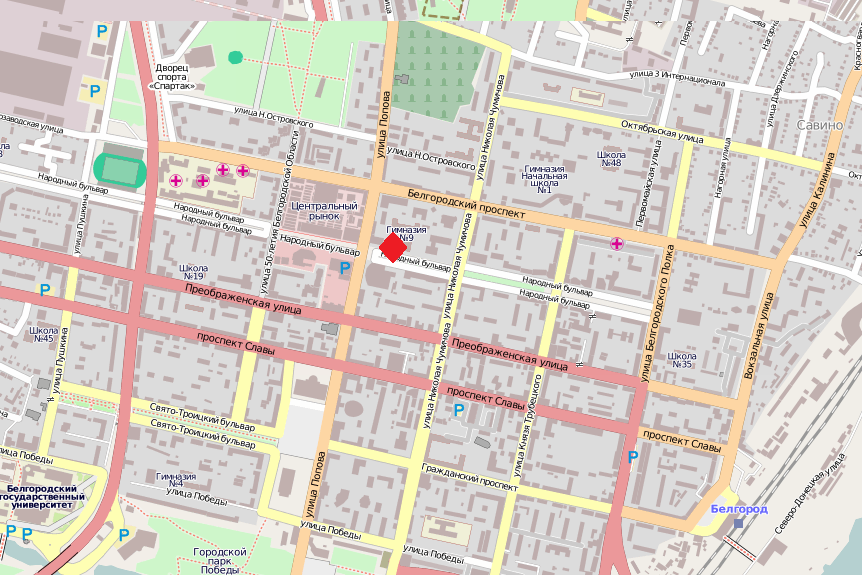 Open street map - Belgorod Shooting